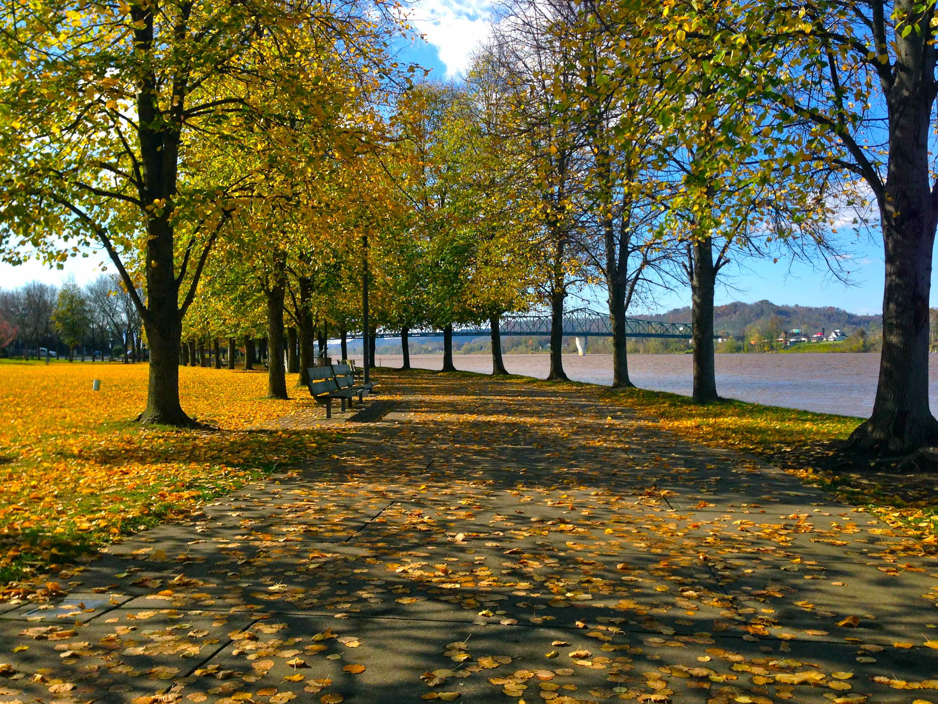 Harris Riverfront Park with the Robert C. Byrd Bridge crossing the Ohio River in the background. Taken November 1, 2012 with an iPhone 5.